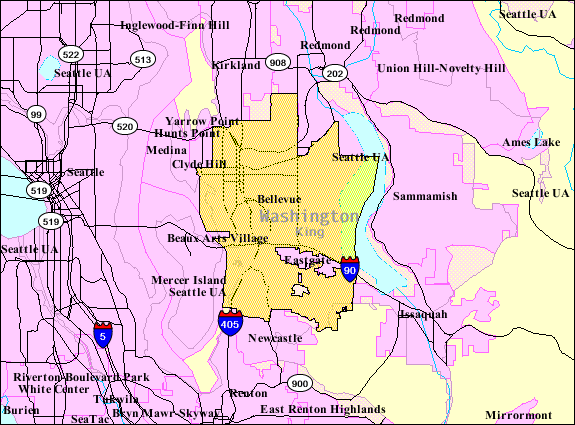 U.S. Census 2000 reference map for Bellevue